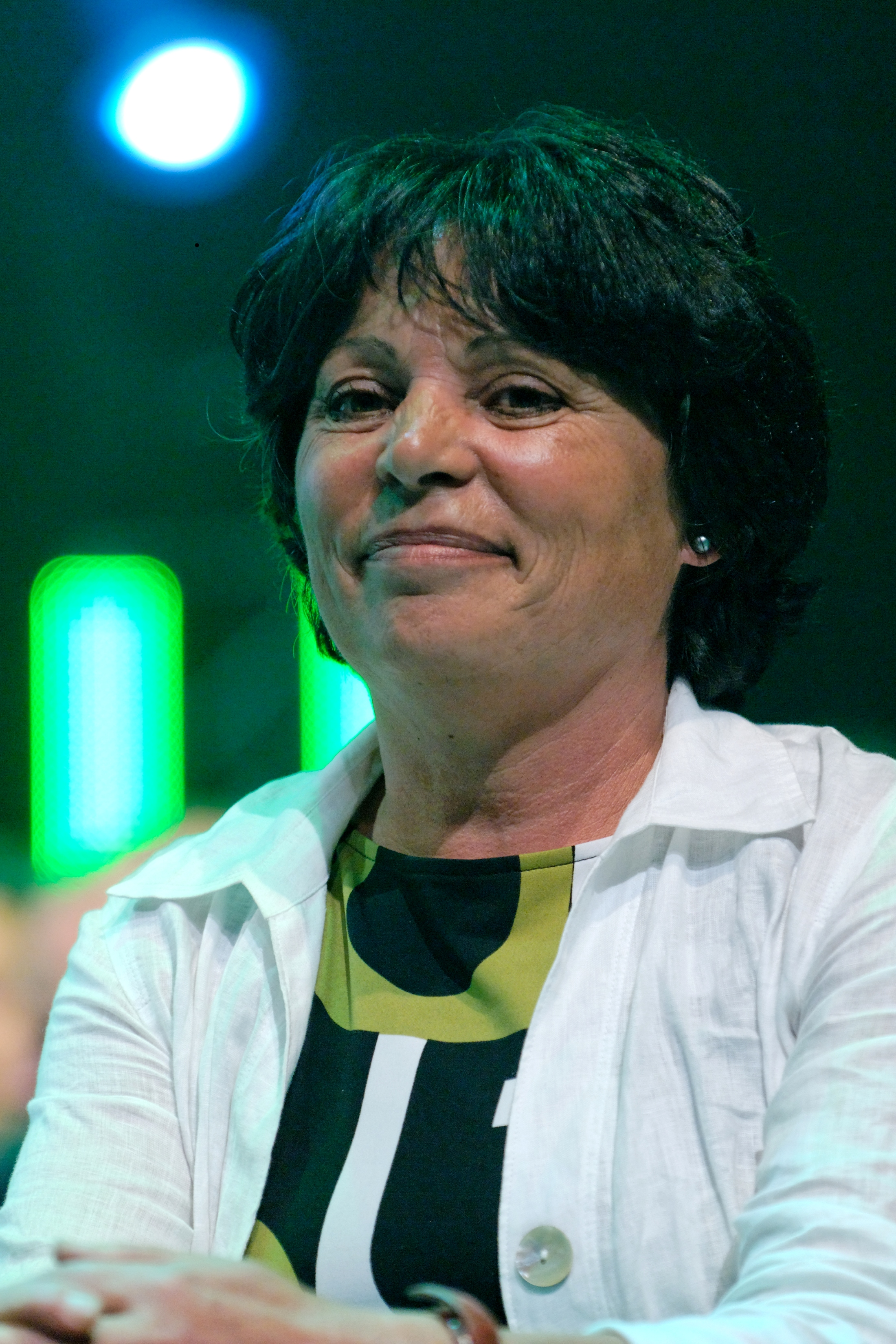 Green politician Michèle Rivasi at the closing rally of Europe Écologie at the Zenith in Paris, on June, 3 2009. Campaign for the 2009 European elections in France.